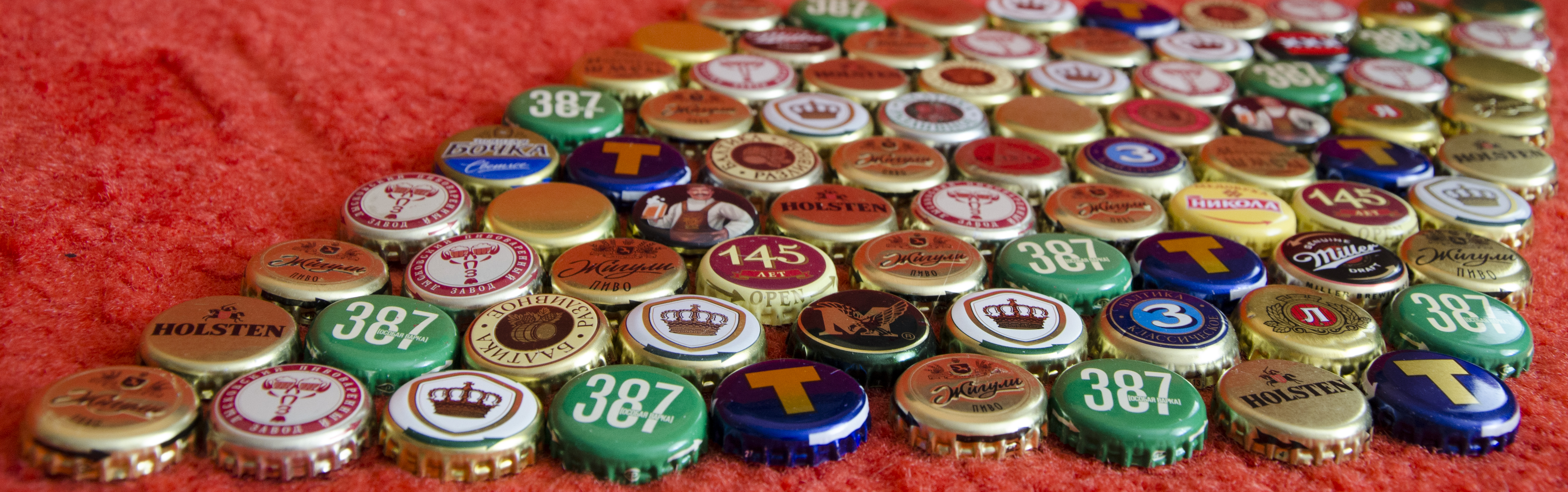 Collection beer caps